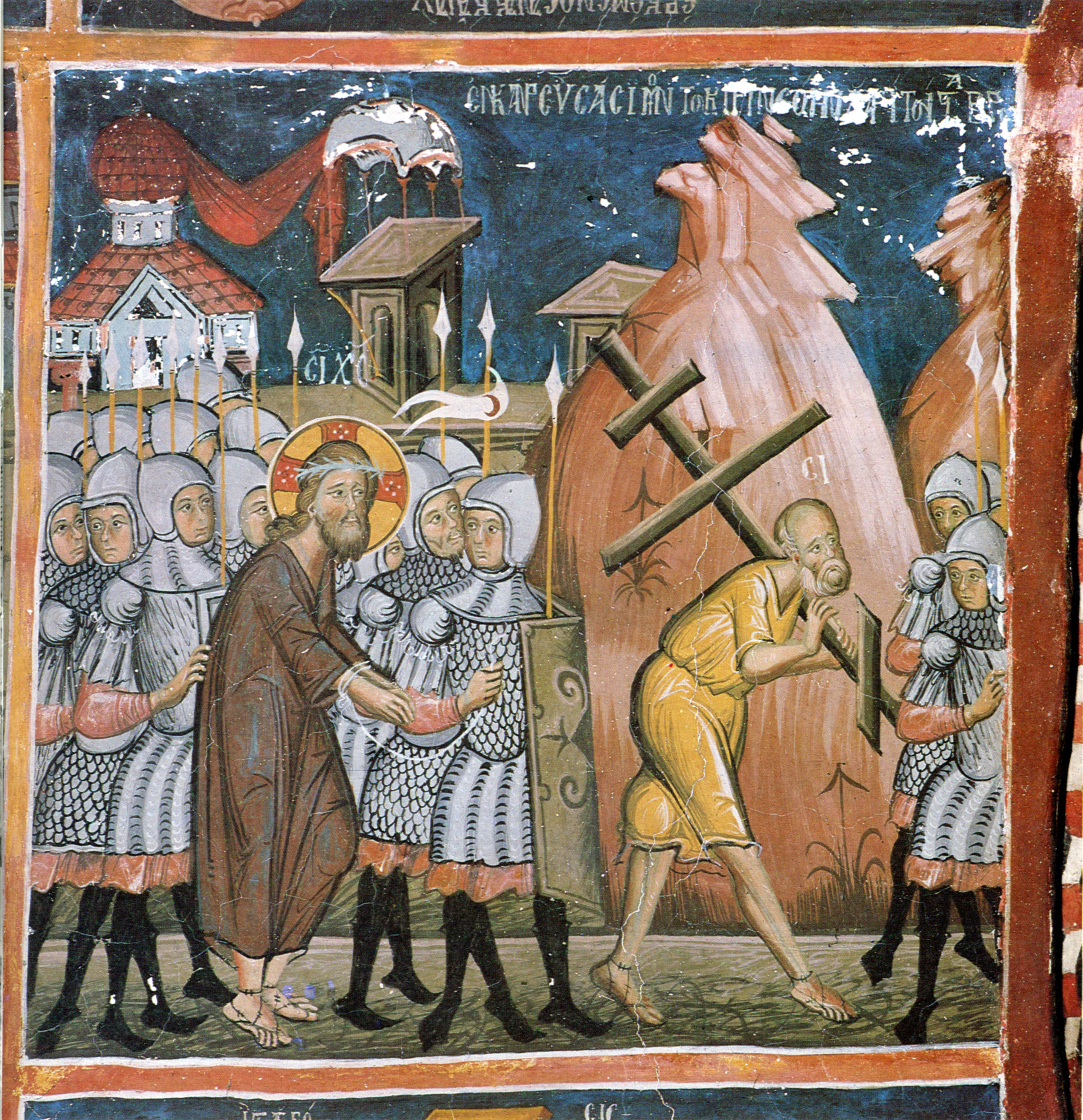 Fresko in Lampadistis Monastery, Kalopanagiotis, Cyprus, showing Christ's way to the Crucifixion